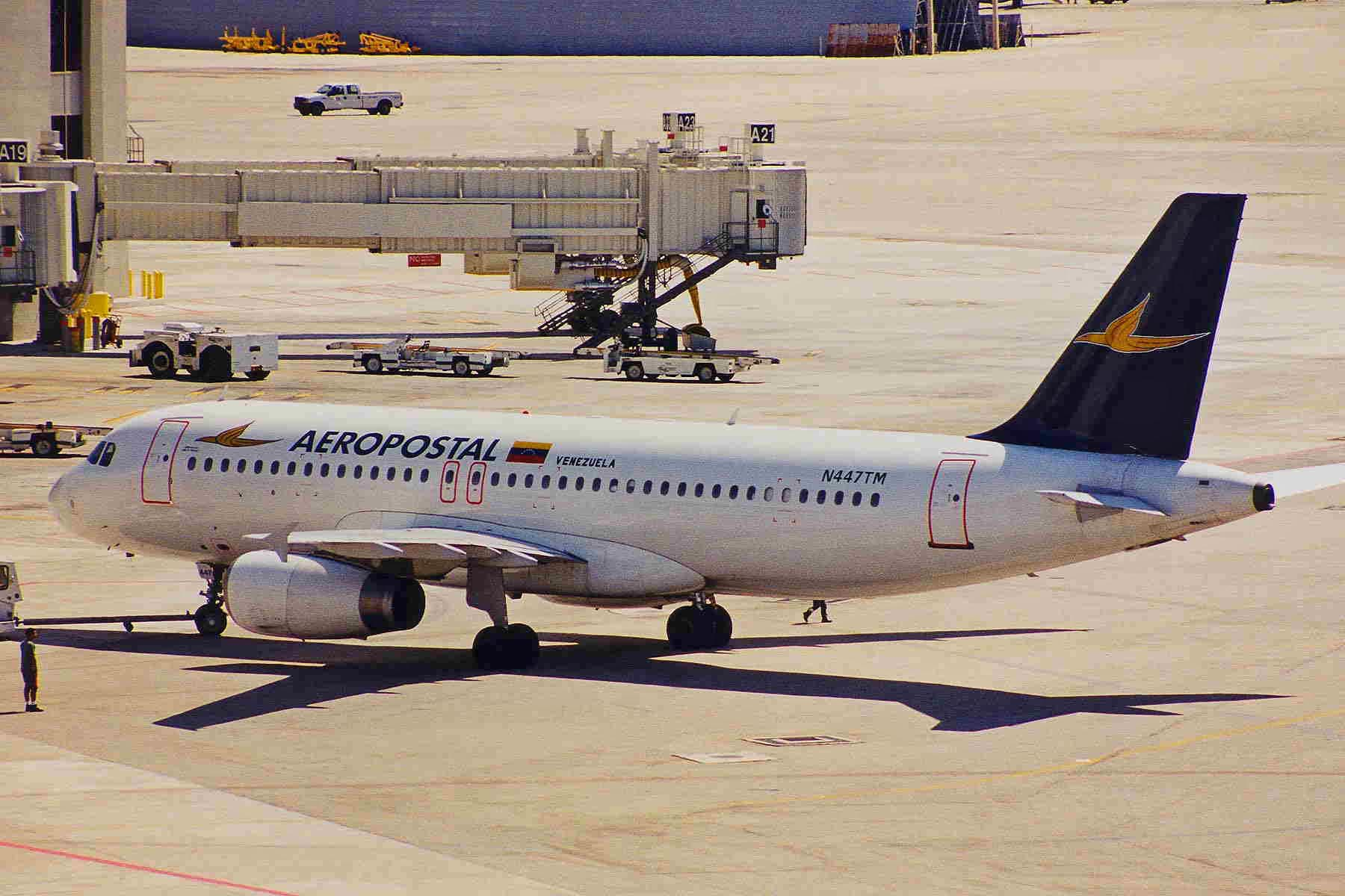 A picture of an airplane